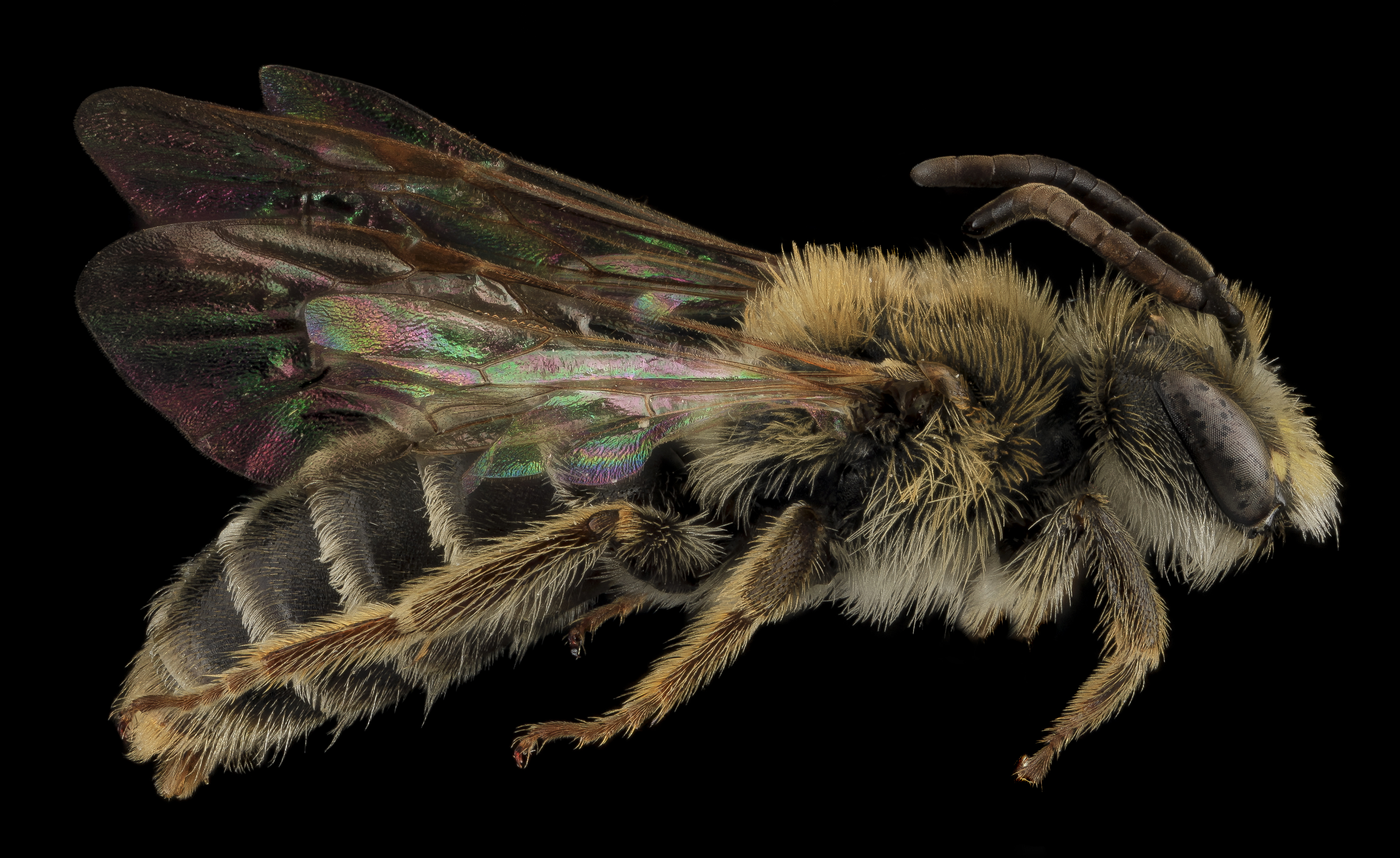 Andrena cragini, male, new species record for South Dakota from Badlands National Park as part of a park wide inventory, this small Andrena species appears to be a Leadplant pollen specialist, photgraphed by interns Joyce, Colby, and Amber